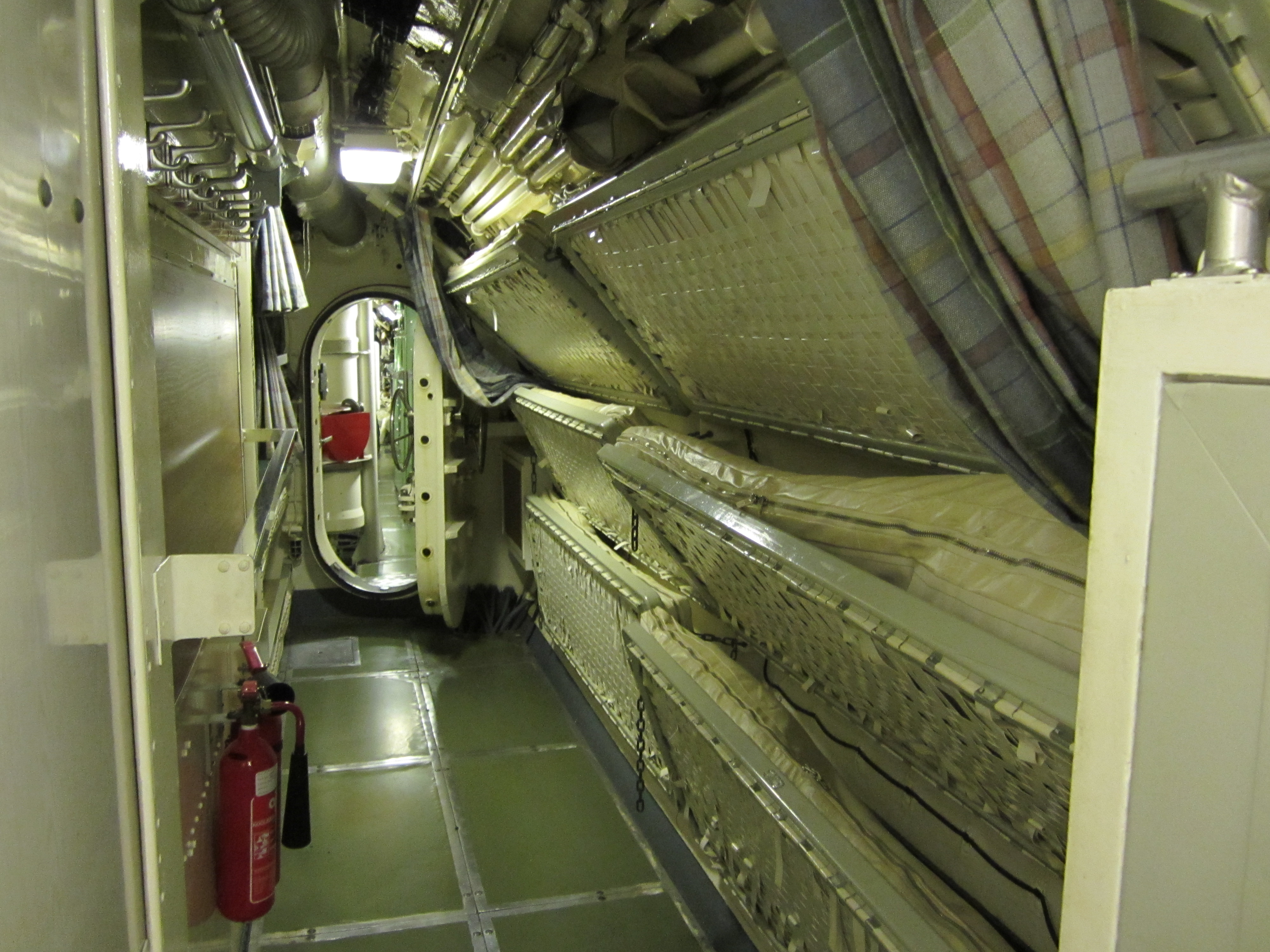 Bunks folded up in the passageway of Hr Ms Tonijn